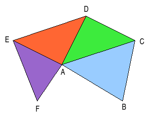 Created by Maurits Maarten de Jong Describes a triangle fan.